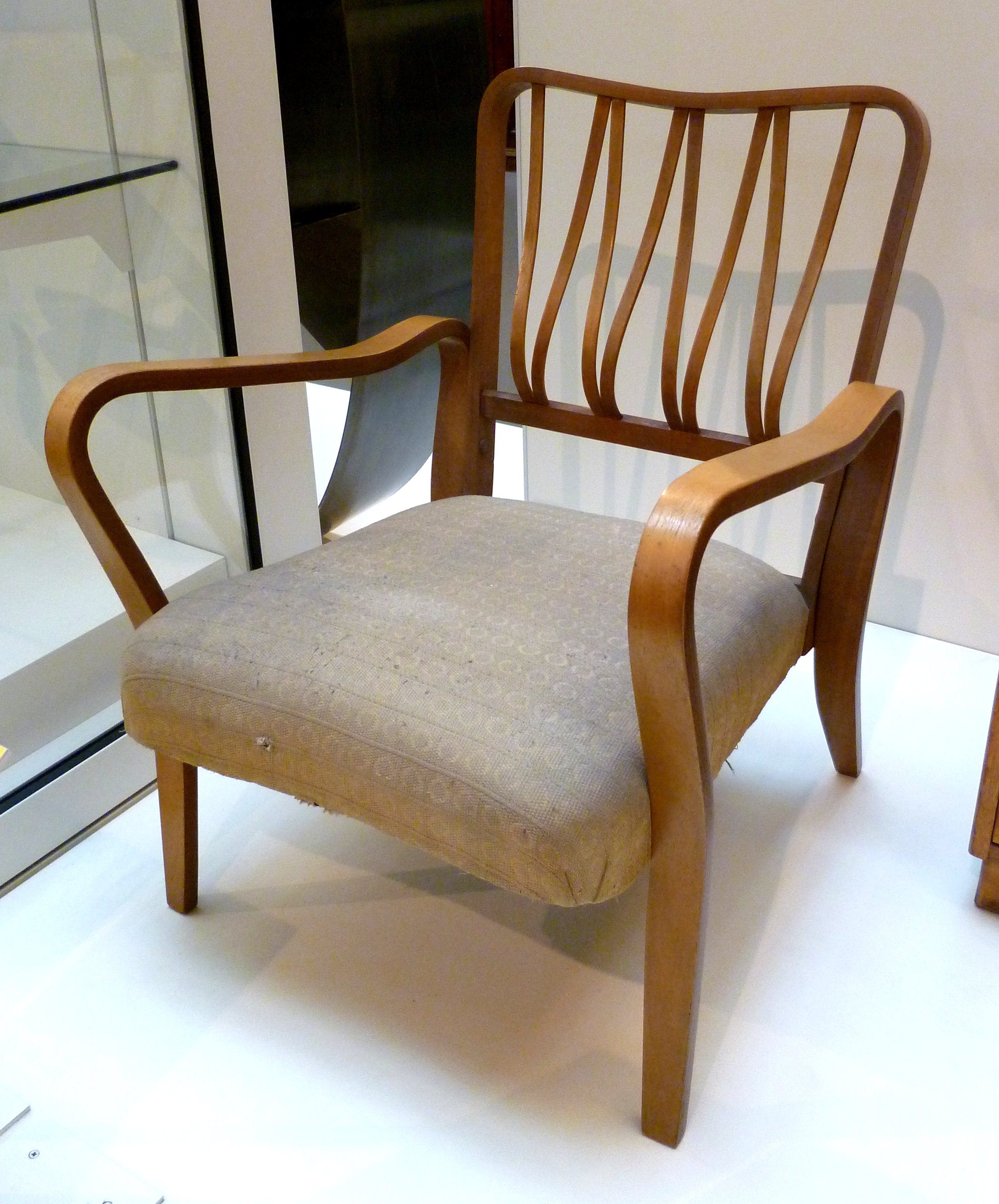 Utility chair in laminated wood 1950-52. Designed by G.A. Jenkins. Made by Packet Furniture Ltd., Great Yarmouth. Victoria and Albert Museum item number W.2-1991.